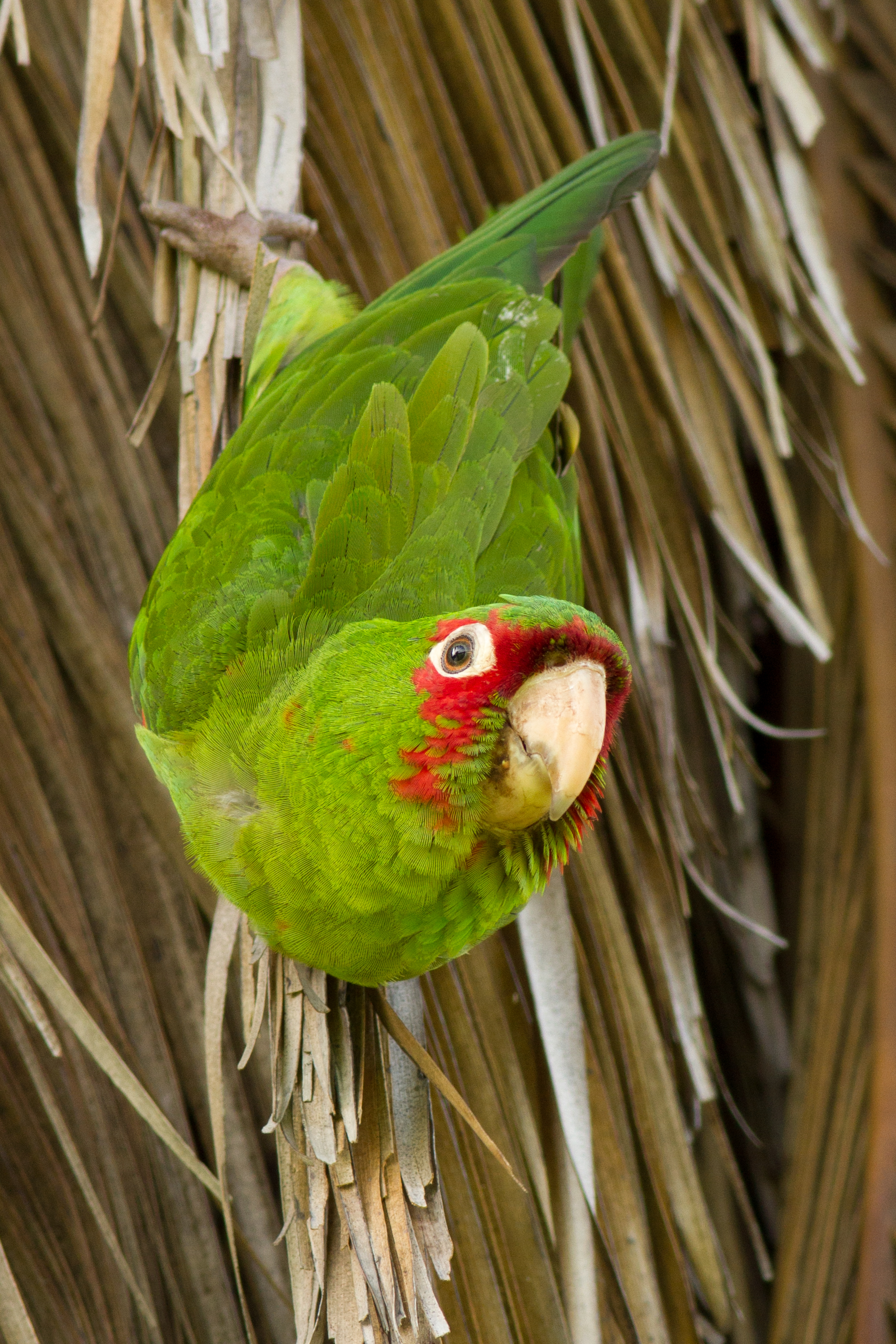 Red-masked Parakeet (Psittacara erythrogenys) at the Presidio, San Francisco, California.